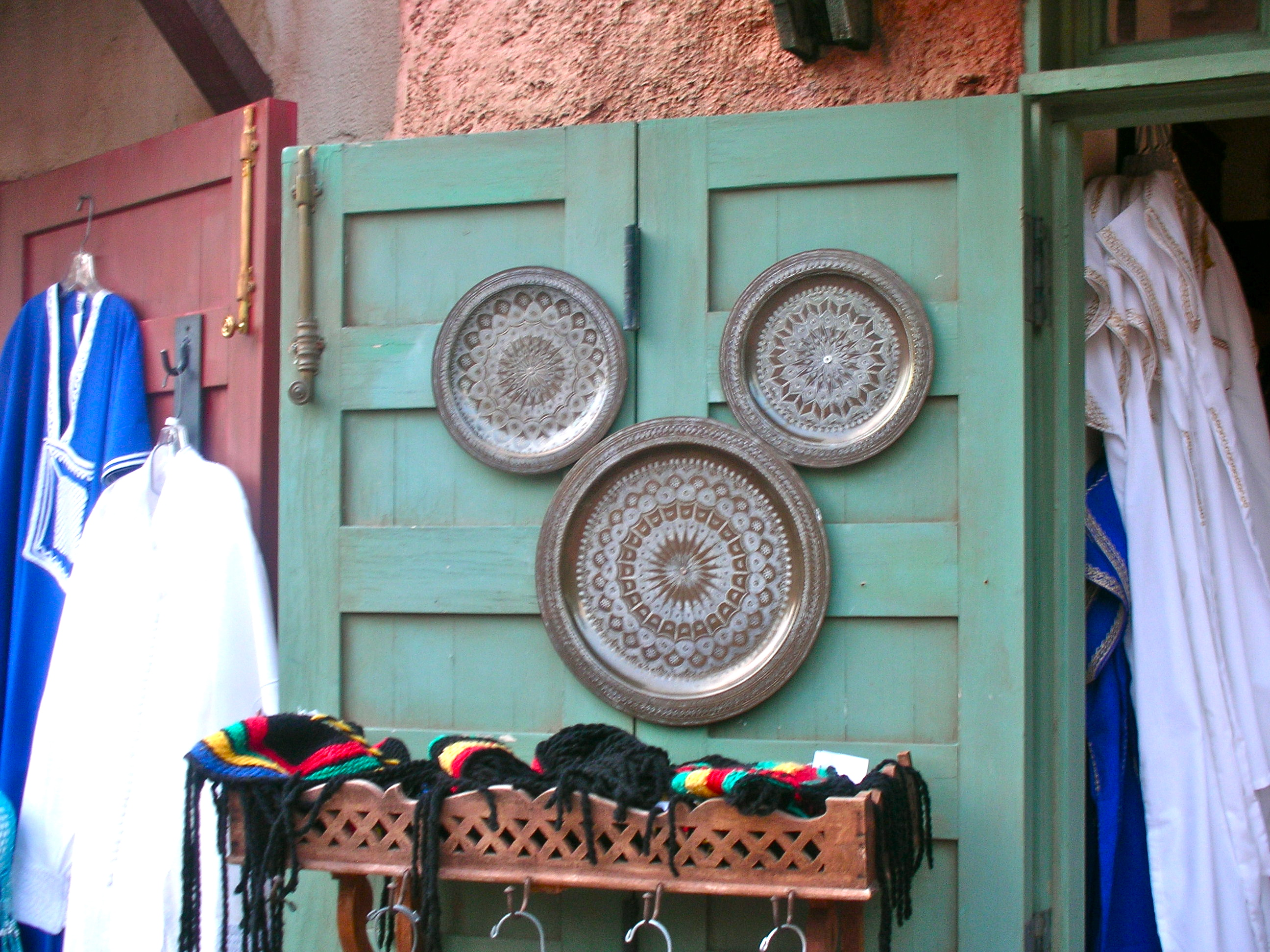 A Hidden Mickey in a shop in the Morocco pavilion at Epcot in Walt Disney World, outside of Orlando, Florida, United States